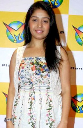 Sunidhi Chauhan promotes her Enrique Iglesias album